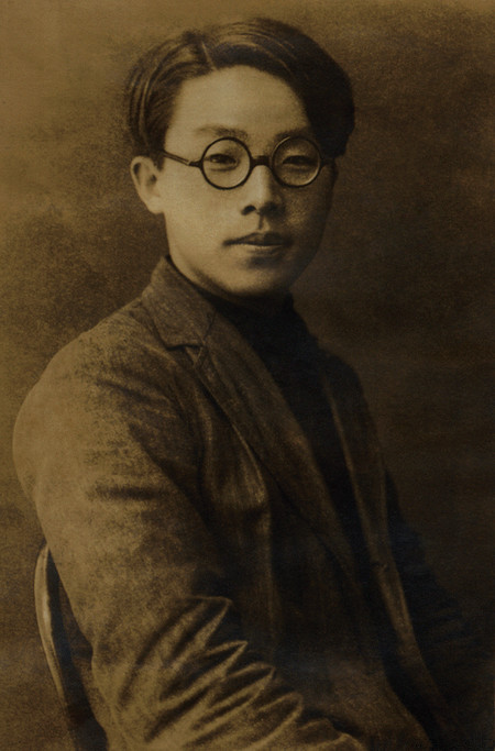 Yu Chi-hwan